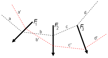 Two different funicular polygons for the same three forces